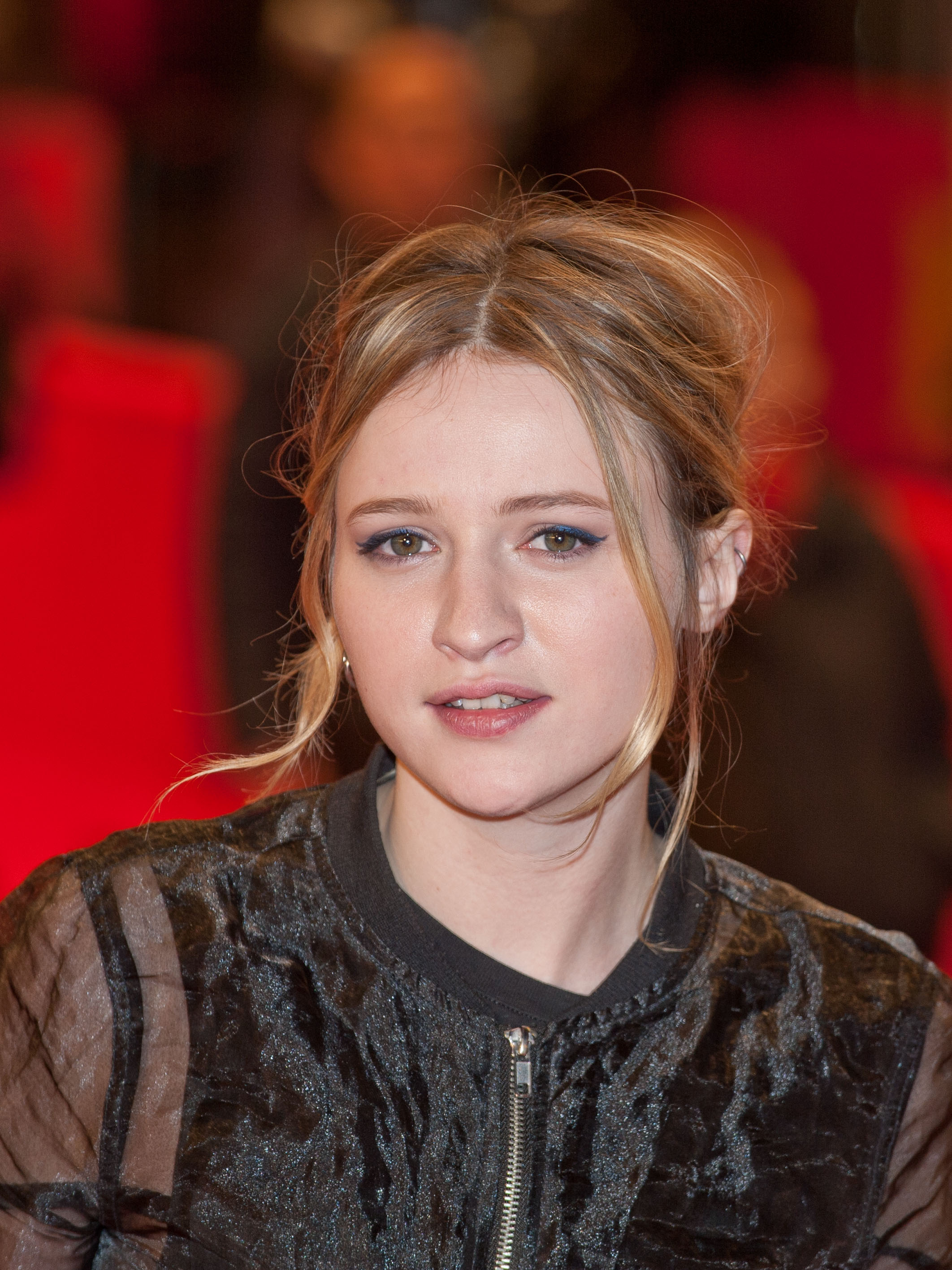 French actress Christa Théret after the European Shooting Stars Award Ceremony